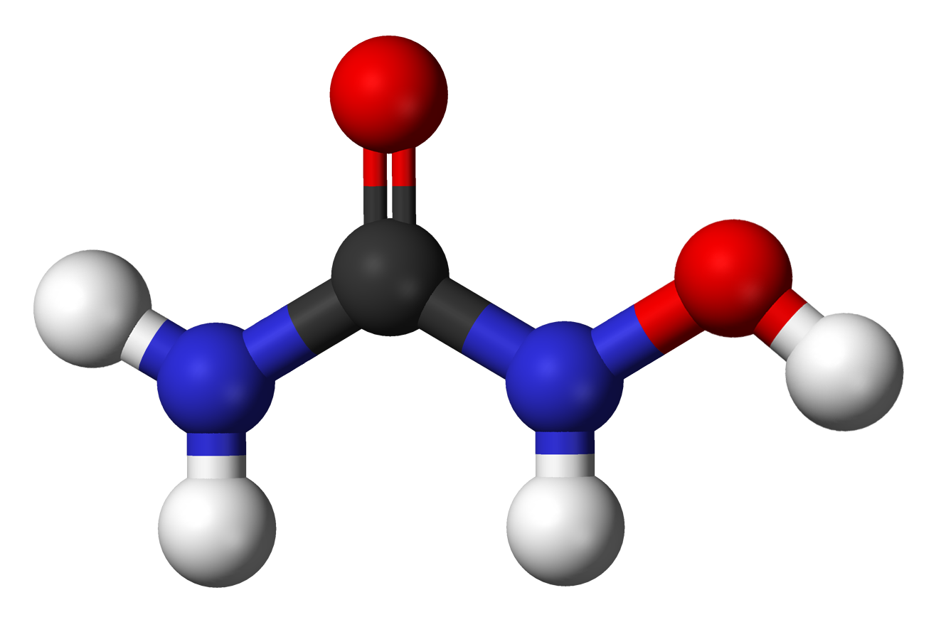 Ball-and-stick model of the hydroxyurea molecule.